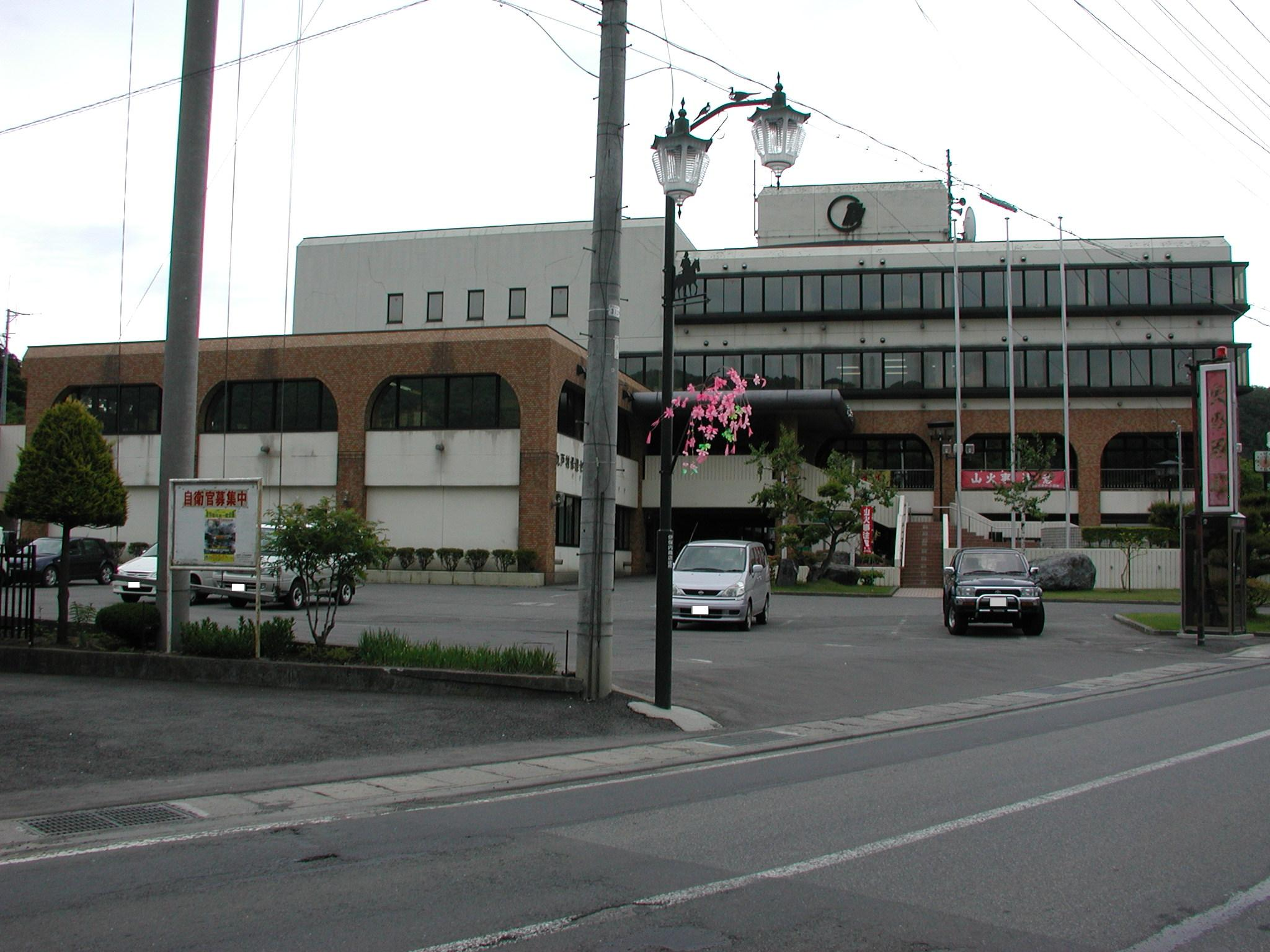 Kunohe Village Office Iwate japan